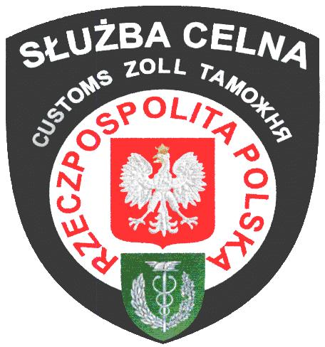 Patch on the uniforms of officers Polish Customs Service